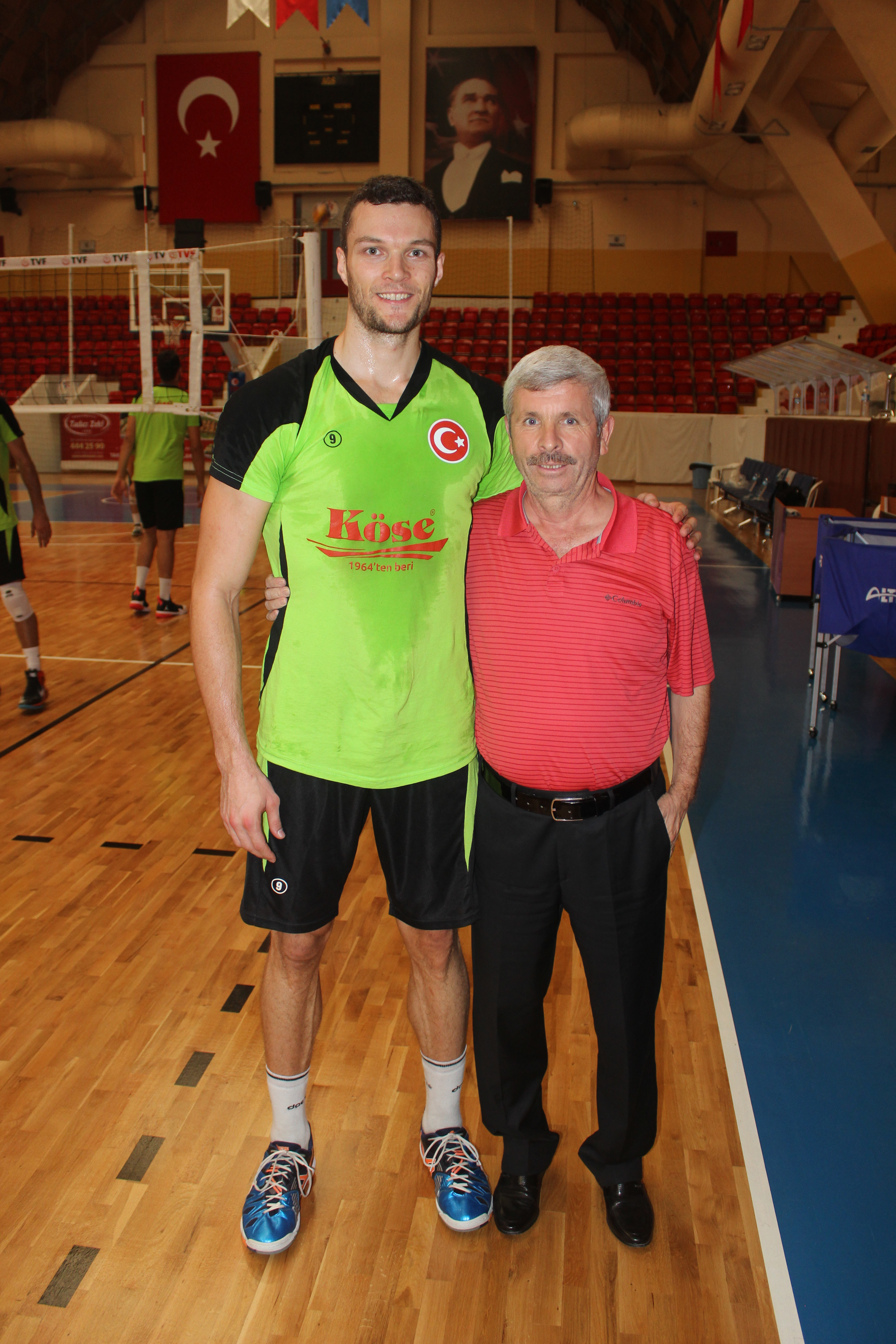 Thomas Zass joined the club with Tatlıcı Köse sponsorship